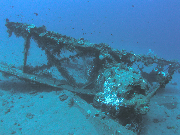 Mitsubishi F1M "Pete" biplane/floatplane ,sunk off New Britain, Papua New Guinea.